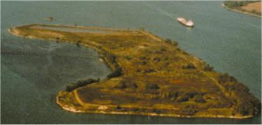 slightly cropped version of Grassy Island